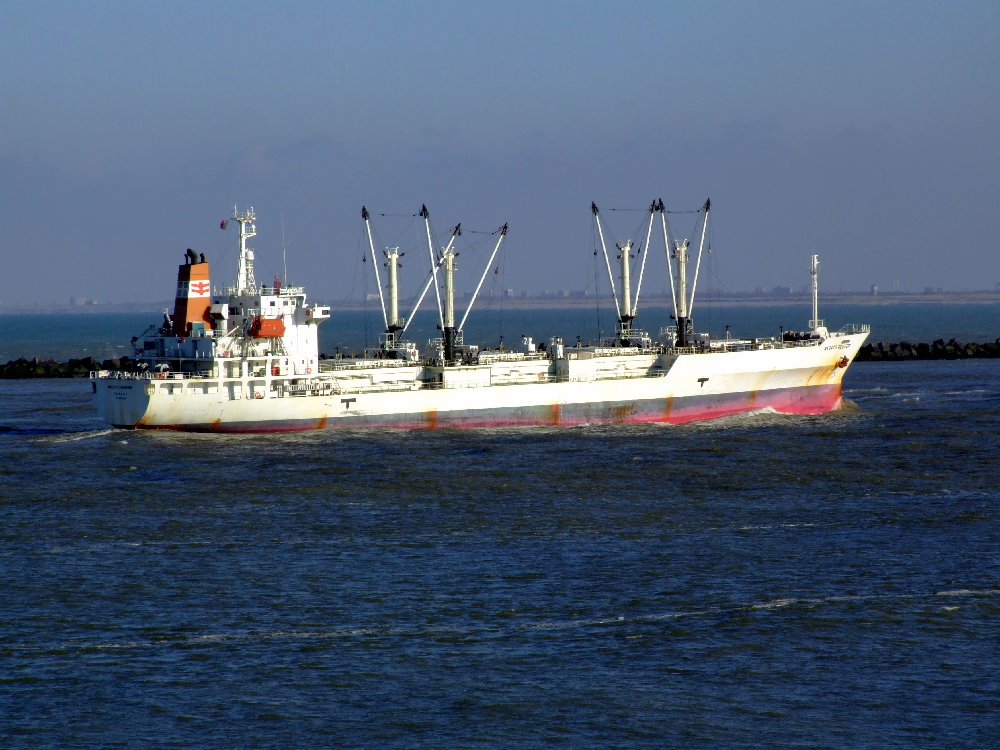 NAGATO REEFER (IMO 9227596)